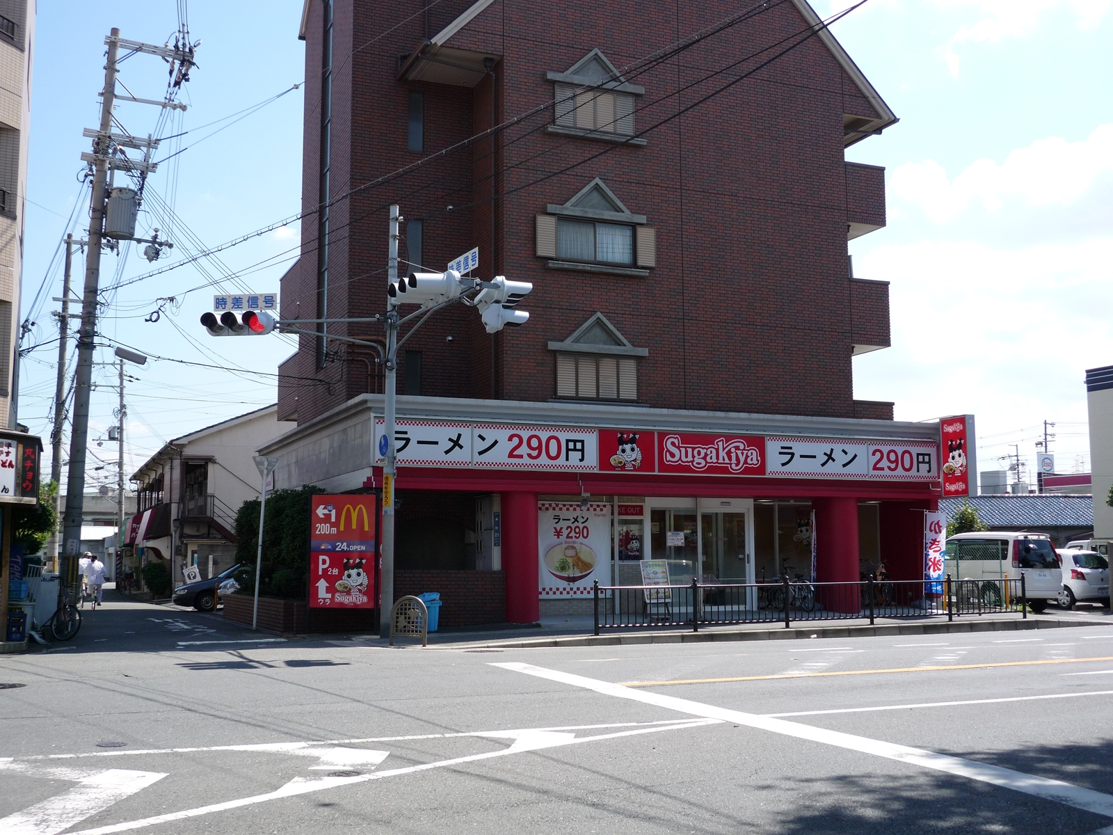 Sugakiya Furukawabasi-Kotobukicho shop.